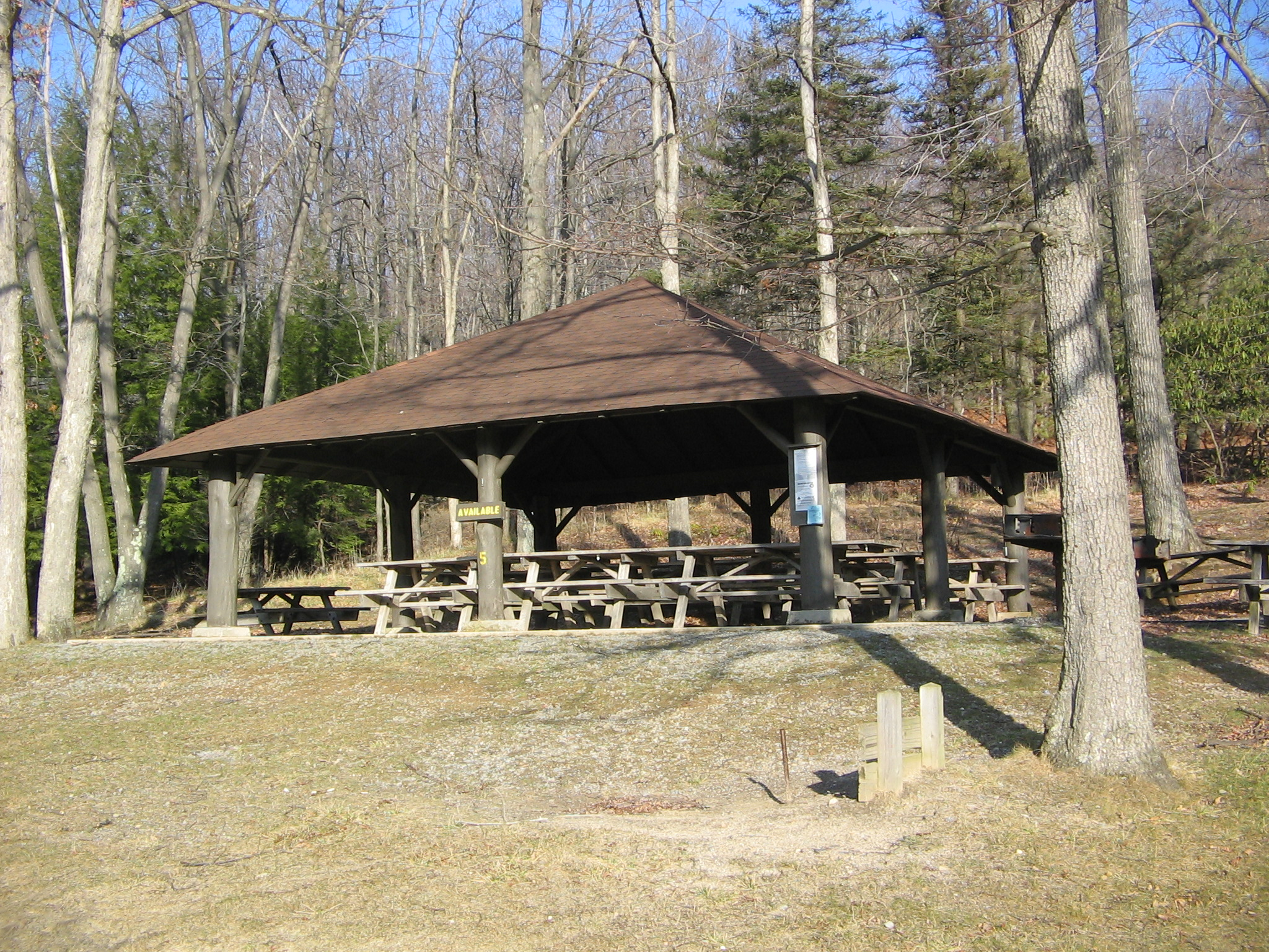 CCC Picnic Shelter 5 at Black Moshannon State Park, near Phillipsburg, Rush Township, Centre County, Pennsylvania, USA.